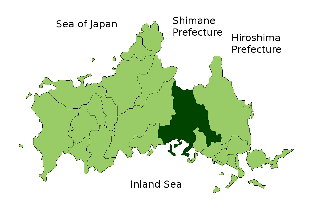 Map of Yamaguchi Prefecture highlighting Shunan city. Borders of map as of July, 2006. (blank map used from [1]) See also Image:YamaguchiMapCurrent.png.